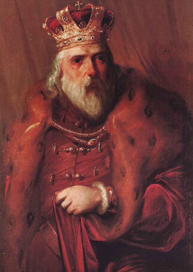 "Knez Lazar", by Đura Jakšić, oil painting dated 1857-1858. Held at the National Museum in Belgrade.